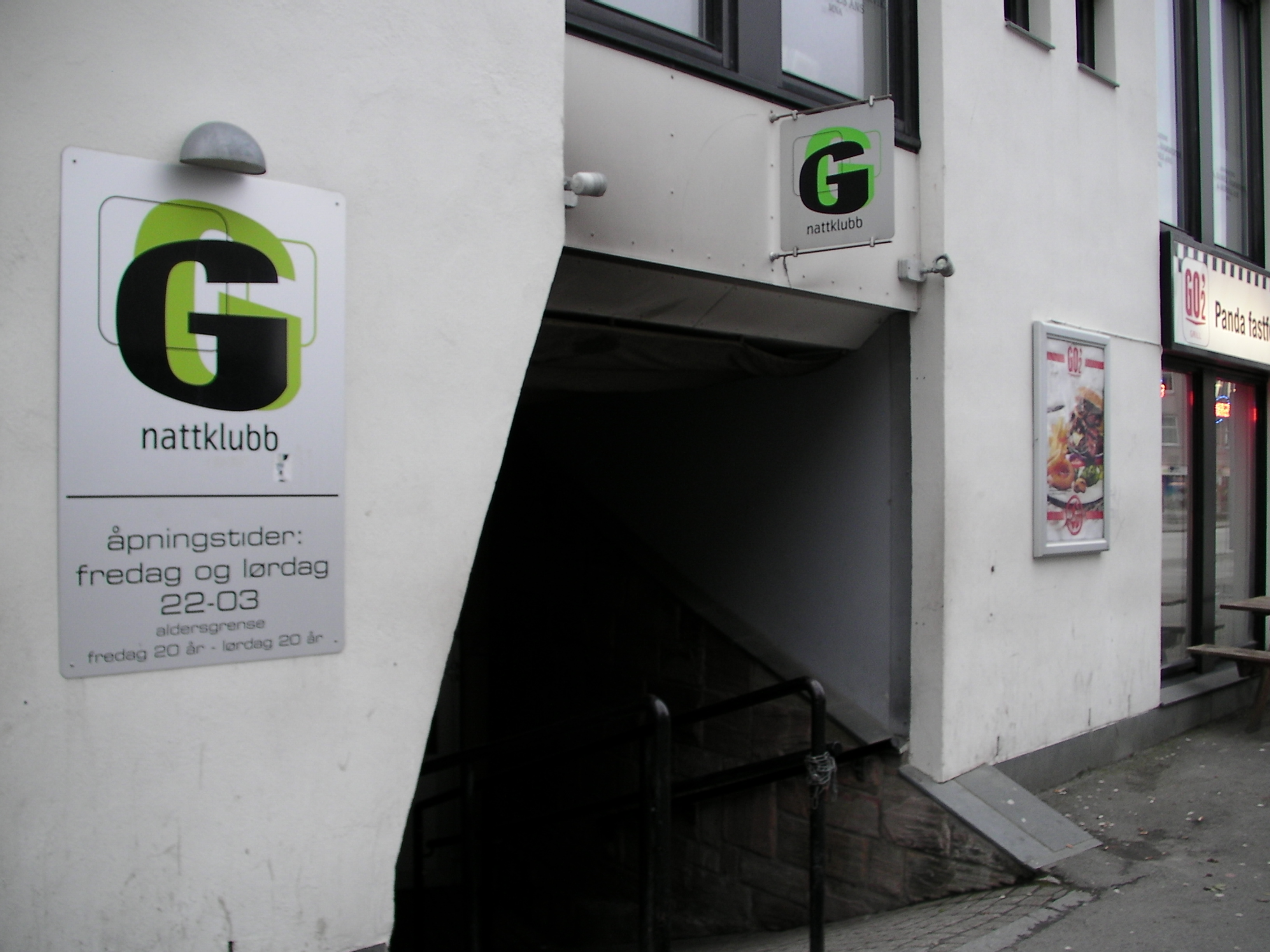 G-Nightclub Bodo